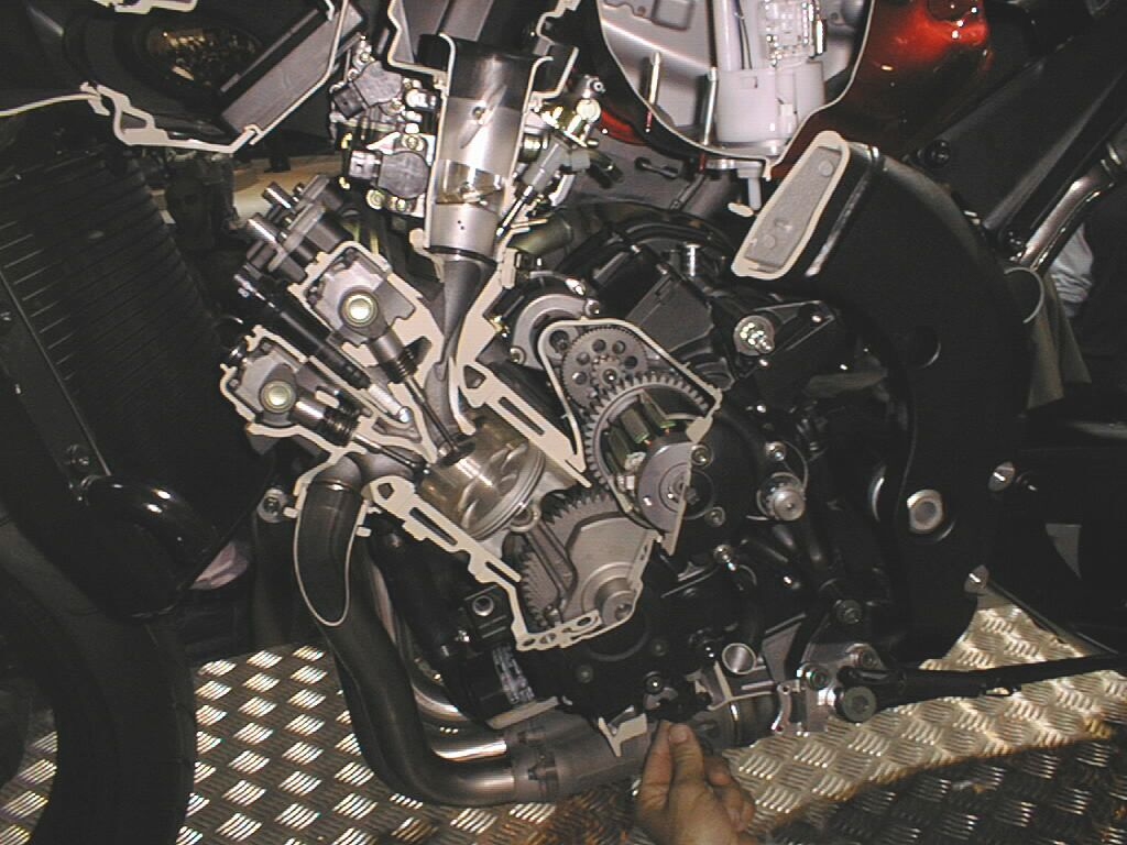 Cutaway of a sport bike inline-four 20-valve Yamaha Genesis engine - Mondial du deux roues de Paris 2003.